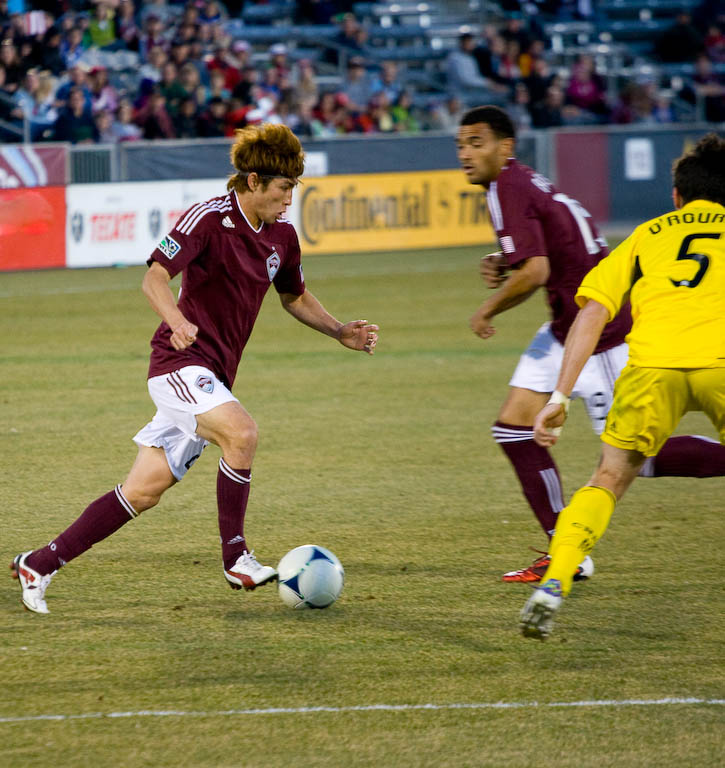 Kosuke Kimura Colorado Rapids vs. Columbus Crew Win 2-0 with goals scored by Drew Moor and Quincy Amarikwa. Opening Day March 10th 2012 Photo By: Corbin Elliott